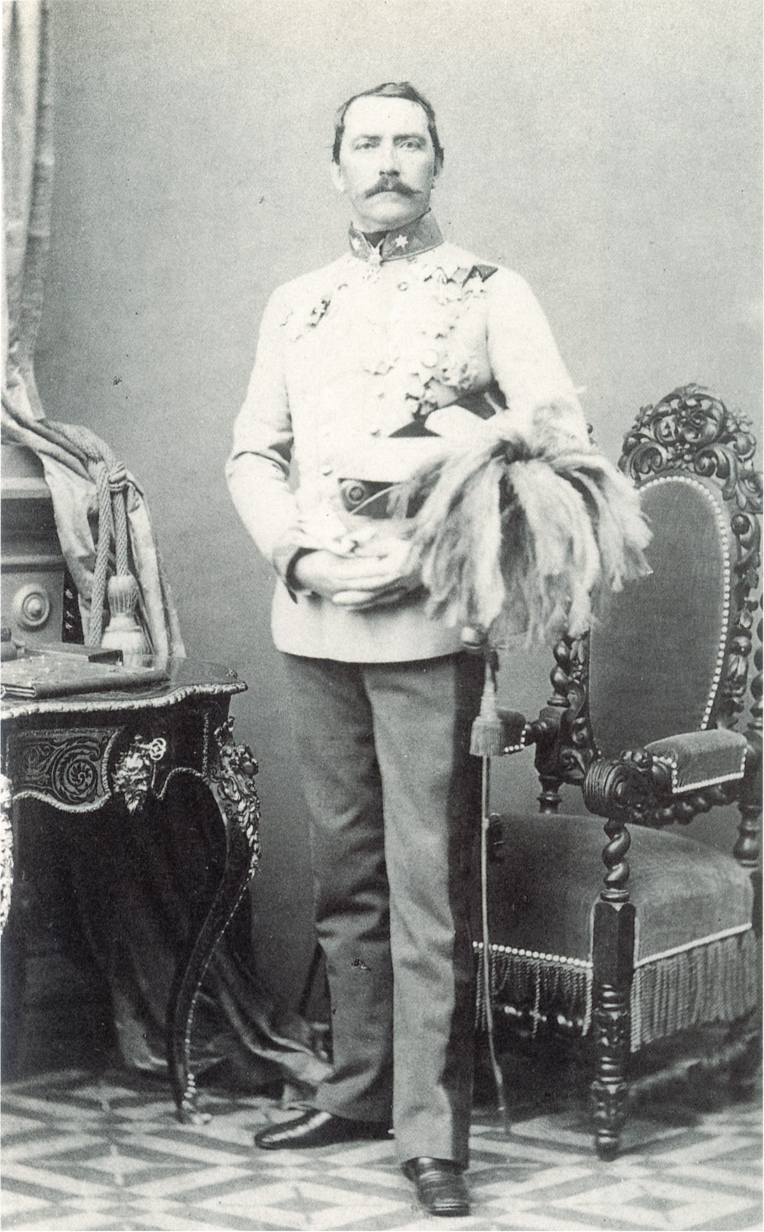 Maximilian Count O'Donnel in the uniform of a Generalmajor of the austrian army